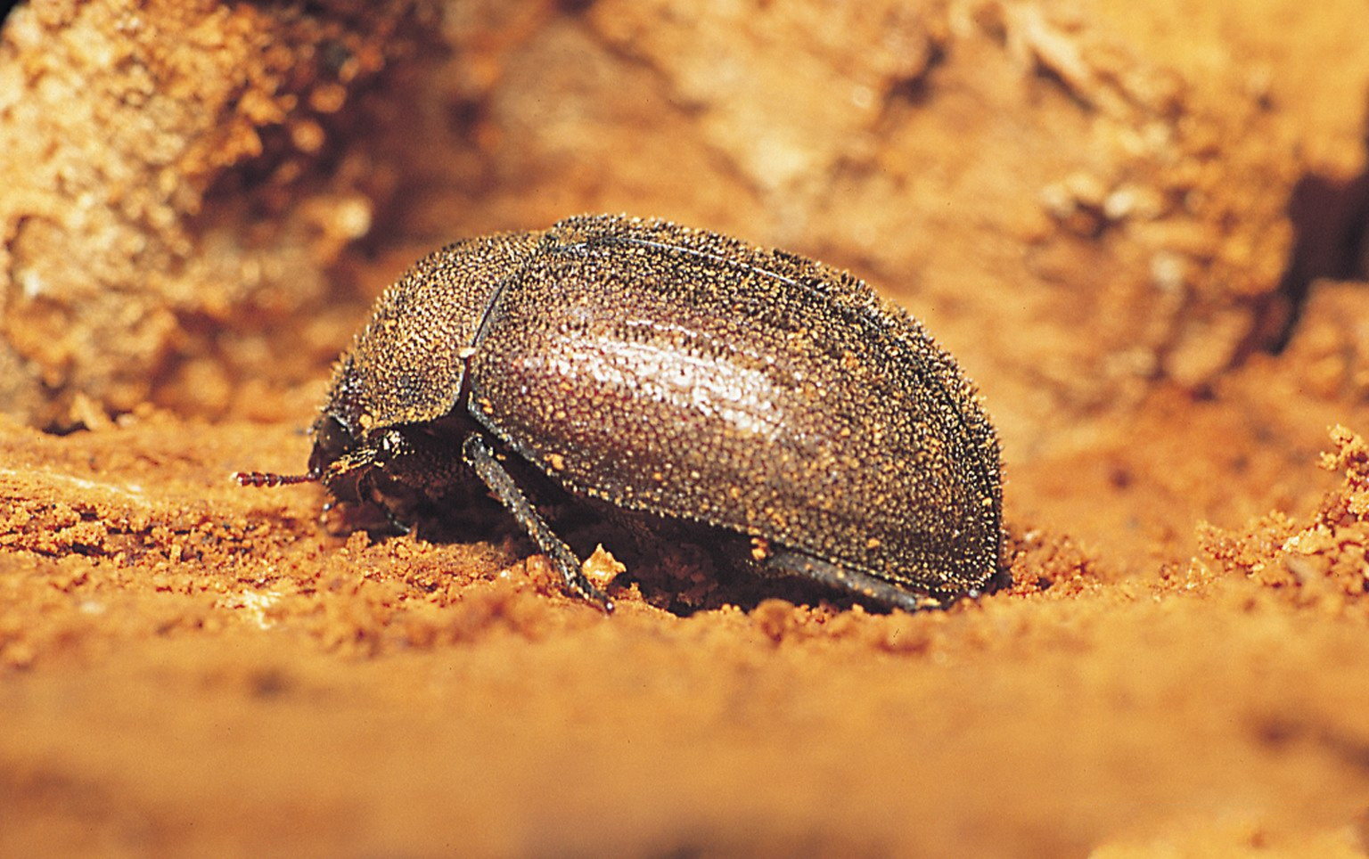 Aesalus scarabaeoides Common Name: stag beetle Photographer: Gyorgy Csoka, Hungary Forest Research Institute, Hungary Descriptor: Adult(s) Image taken in: Hungary